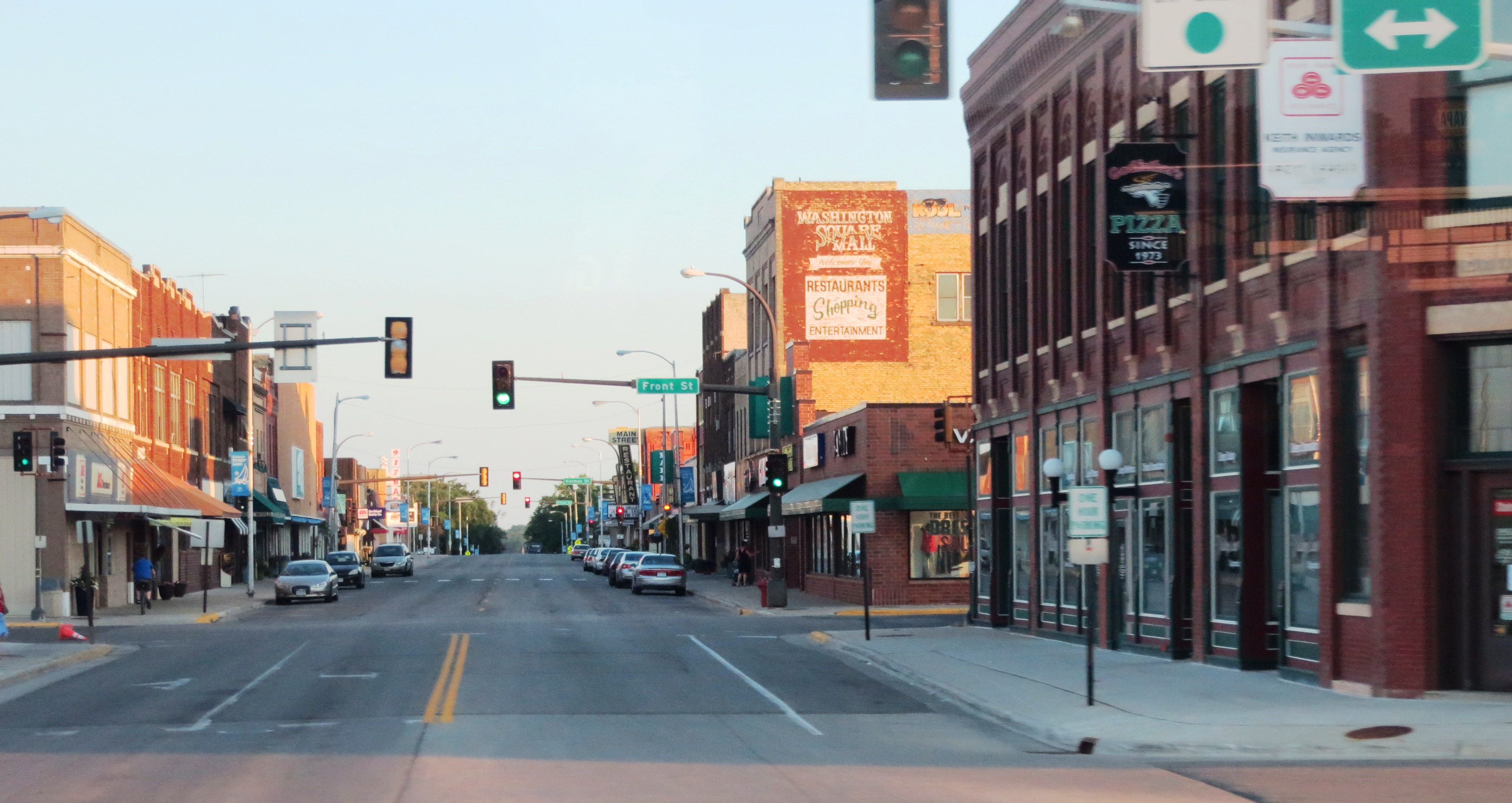 Becker county is the county of Minnesota bordering North Dakota on Fargo-Moorhead, with the latter city as a county seat. The photo shows the area around Detroits Lakes.